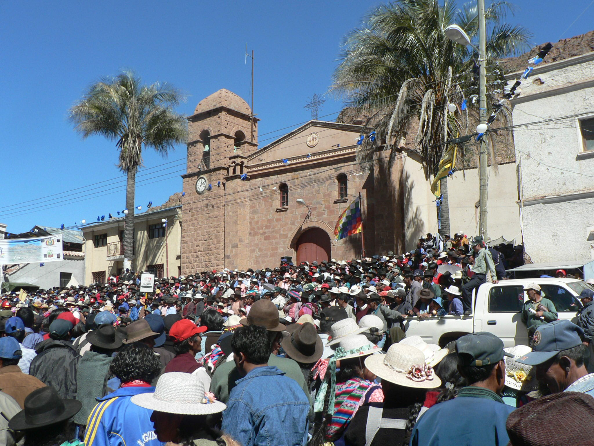 The "feria de la papa" (potato party) in Betanzos, Potosí, Bolivia on 20 of may 2007.